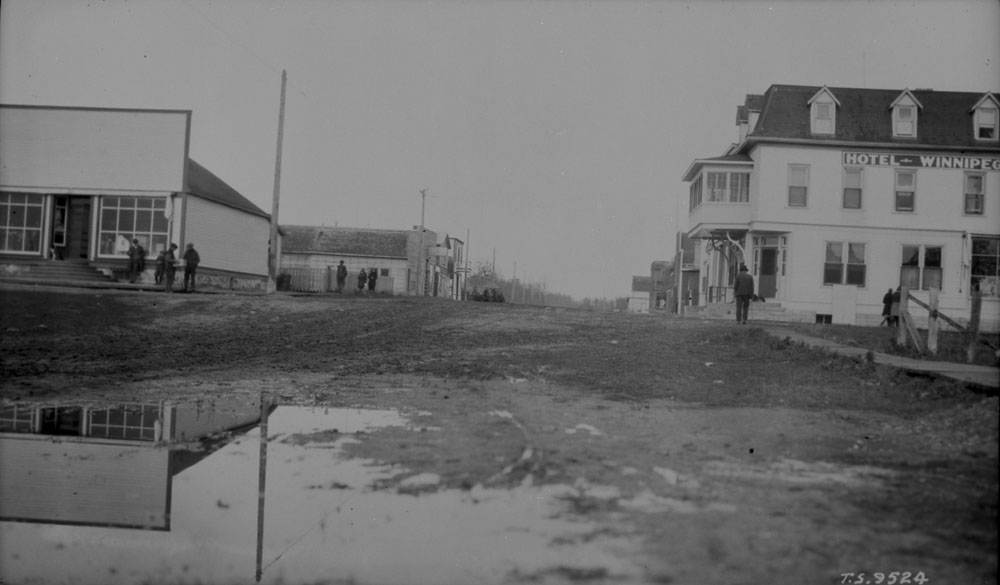 Muddy street scene and Hotel Winnipegosis, 1924